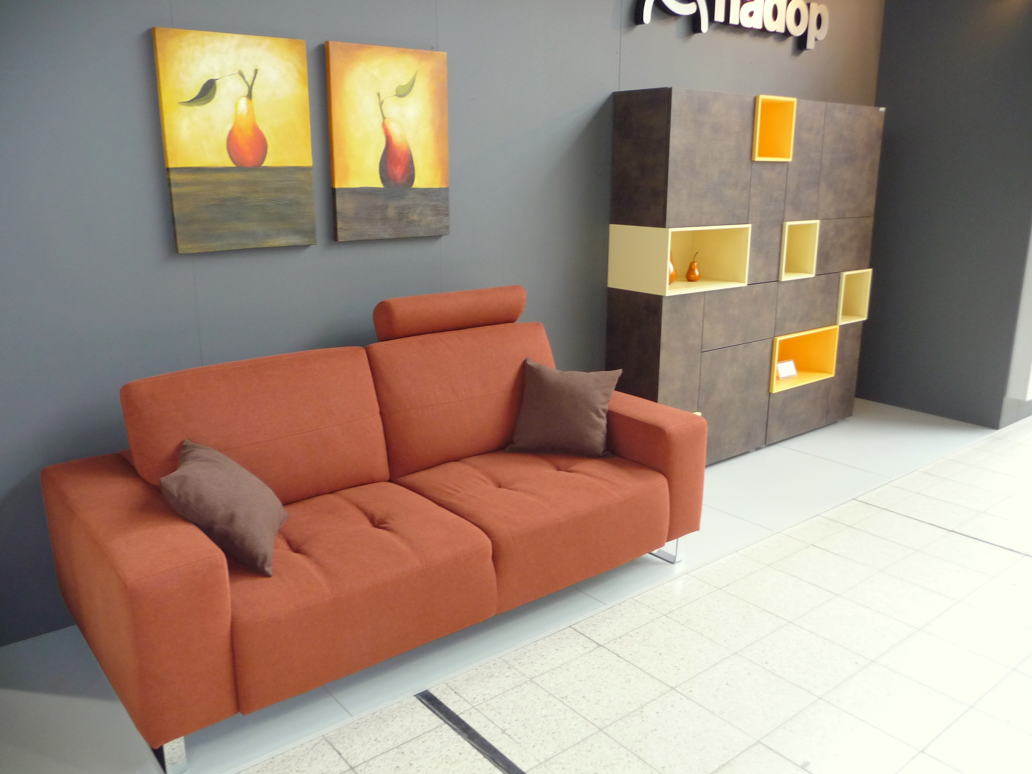 Living room, Building Fairs Brno 2011 -10-5-3-2◄►+2+3+5+10